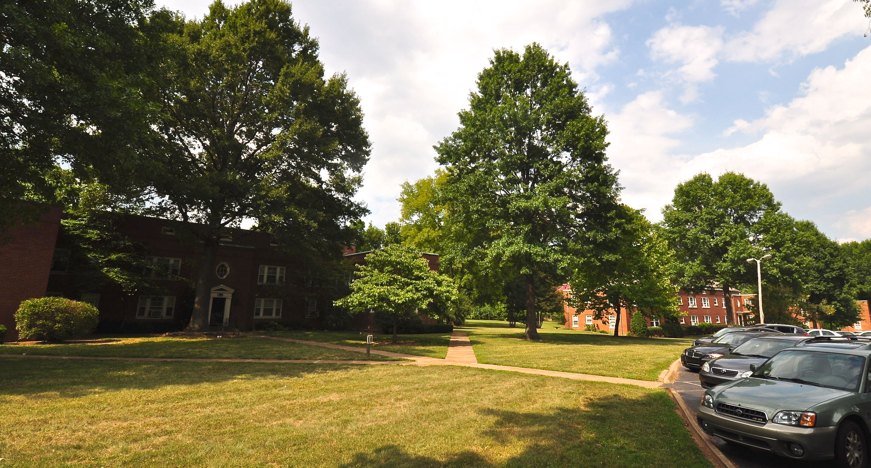 Woodmont Terrace Apartments, 920 Woodmont Blvd. Nashville